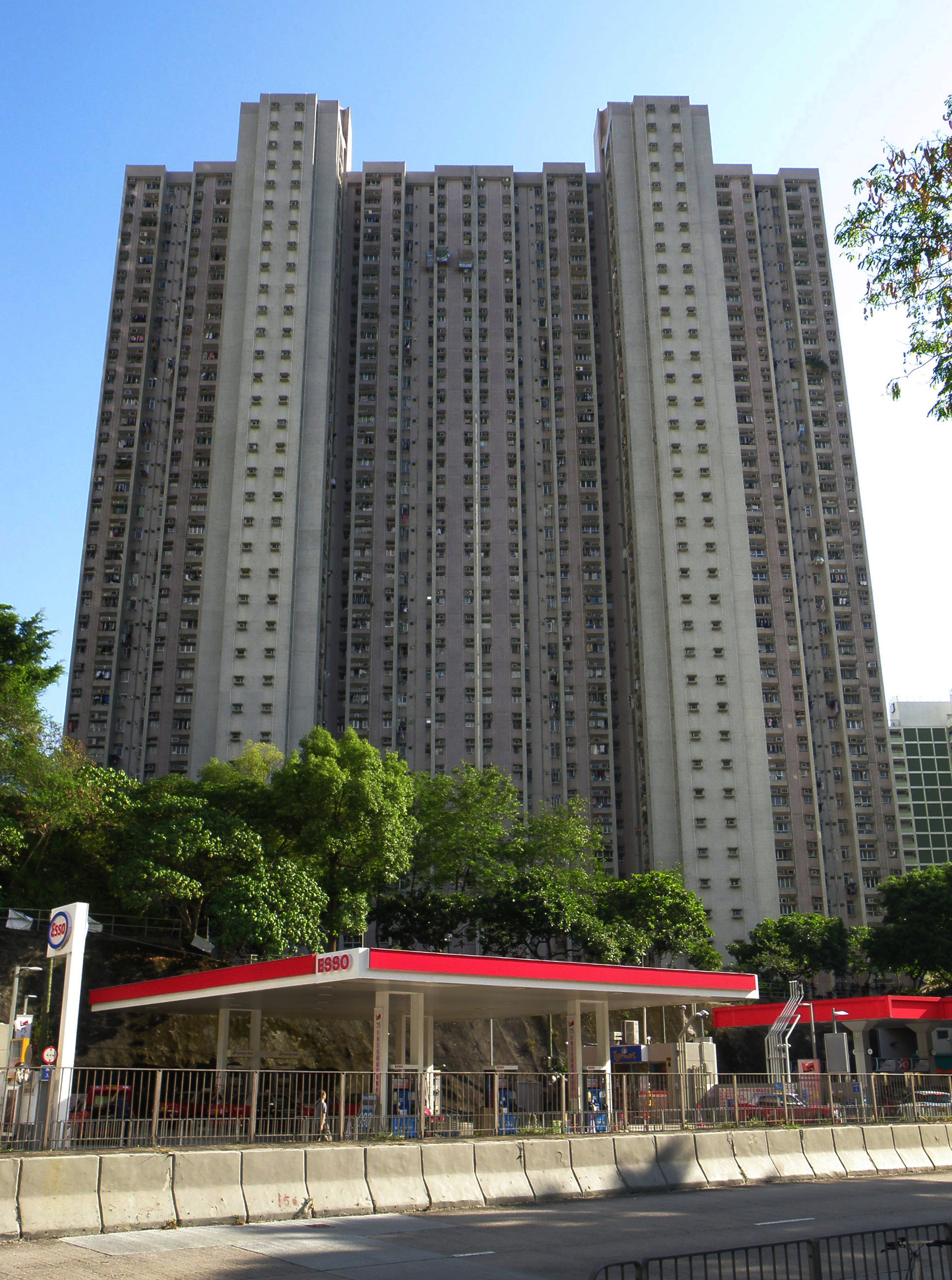 Kwai Yin Court in Tai Wo Hau, Hong Kong.